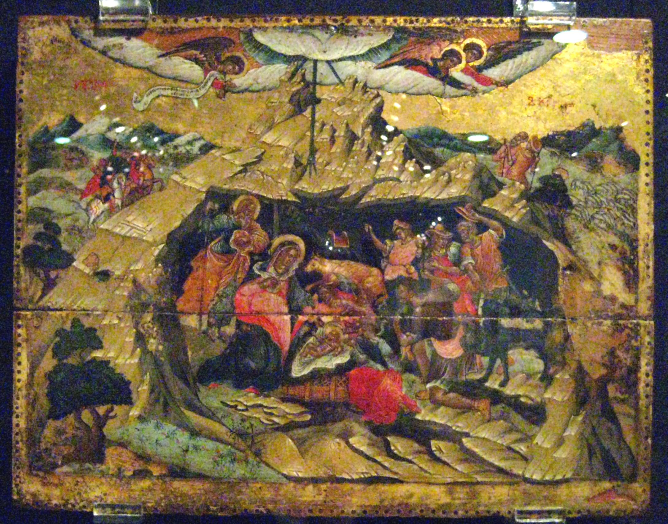 Circle of Apostolos Krezias. The Adoration of the shepherds. 2nd h. 18 c. Benaki museum